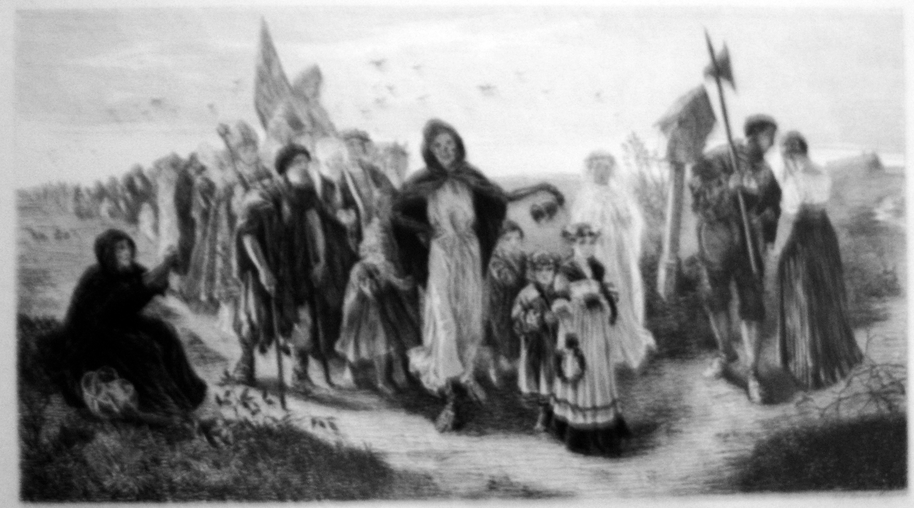 Hans Meyer (1846-1919): Dance of death. Death leading a procession. engraving from 1880. MfSK, Kassel.